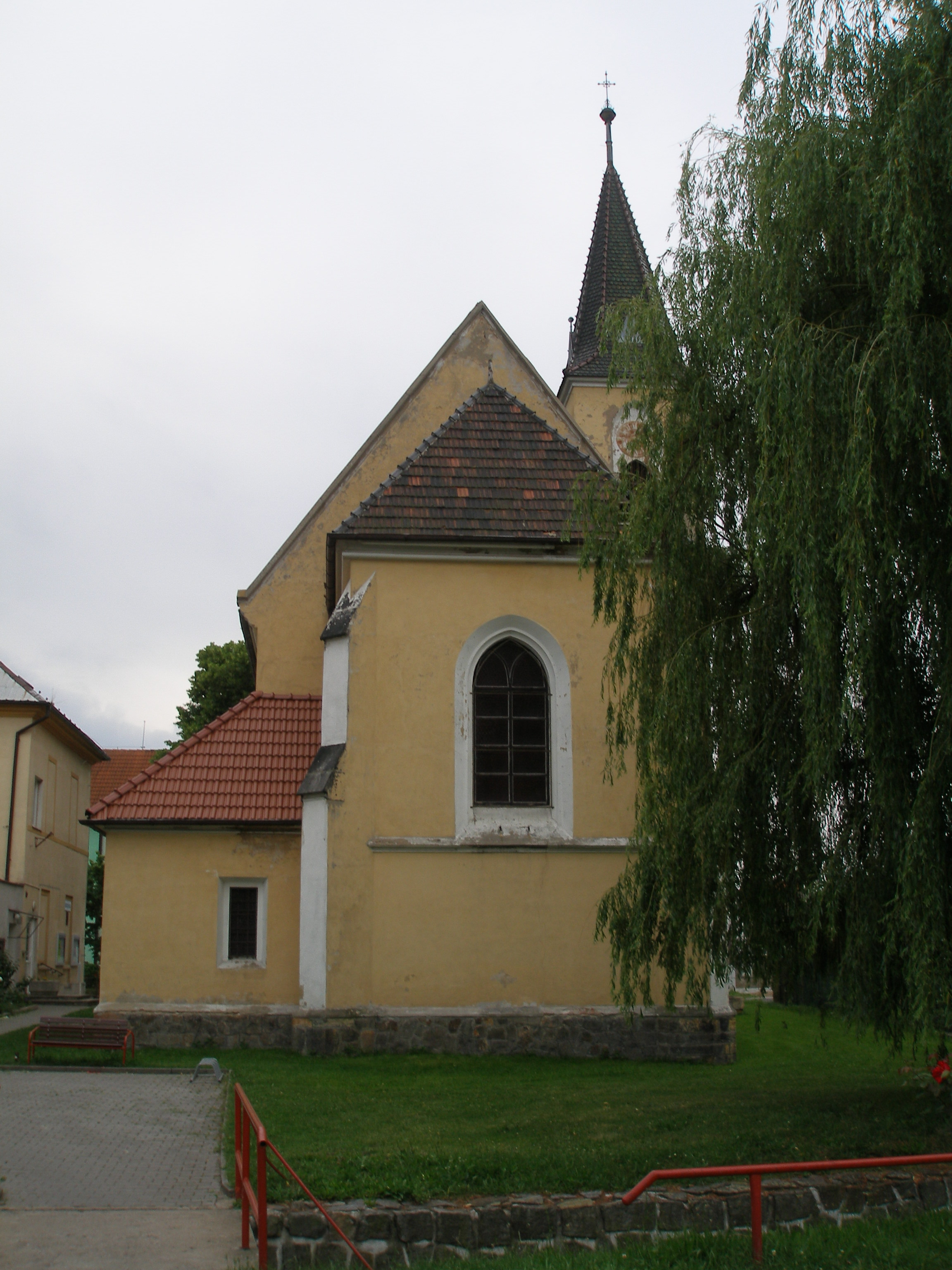 Otvice - the St. Barbara church